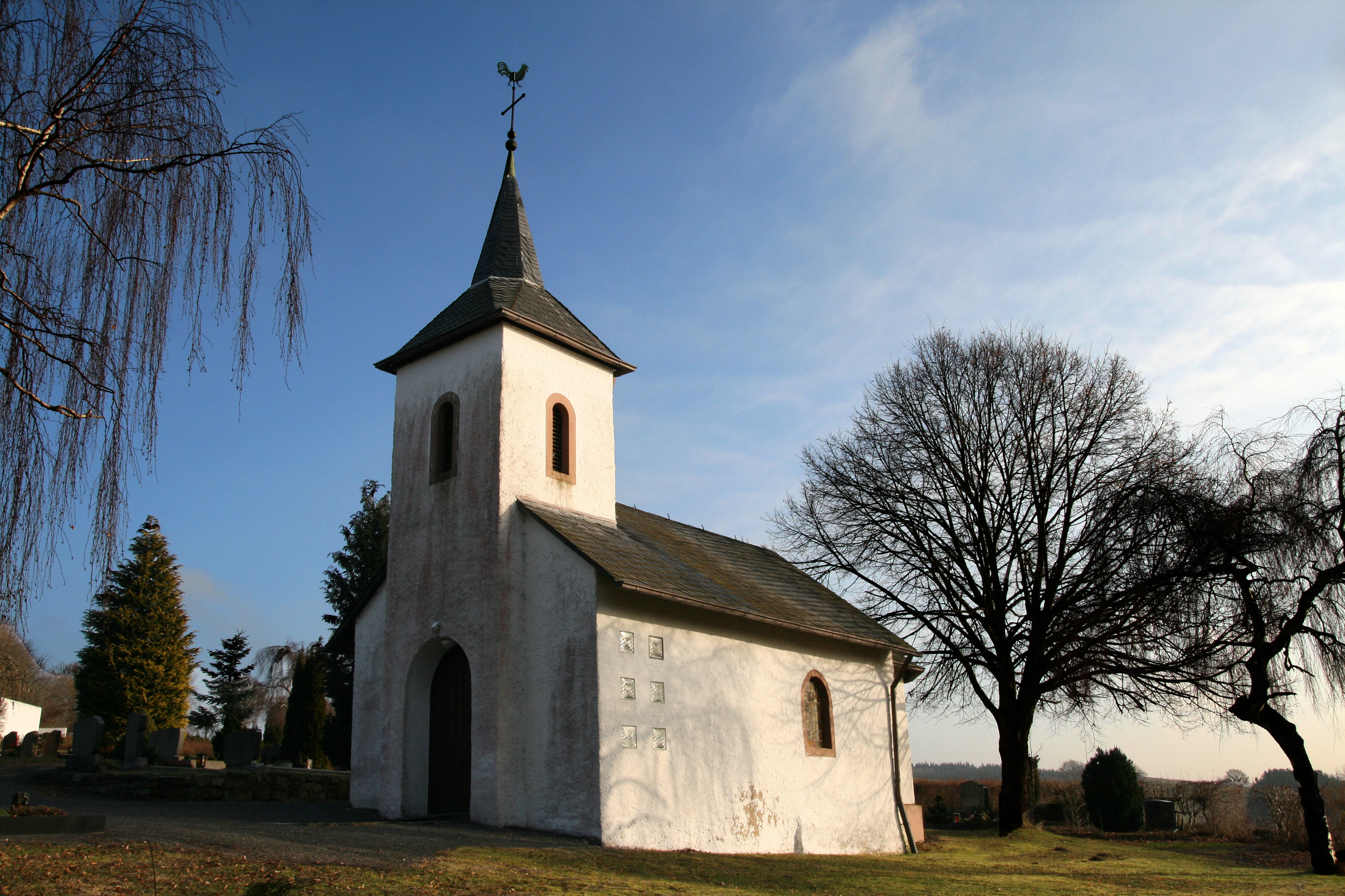 Chapel in Stadtkyll, Eifel Region, Germany